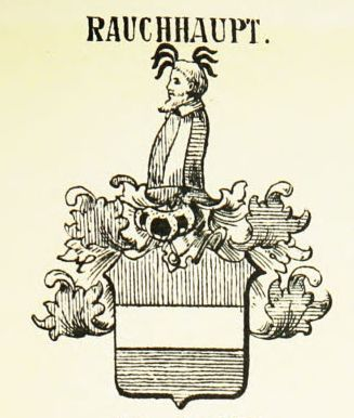 Coat of Arms, Rauchhaupt Family, Saxony